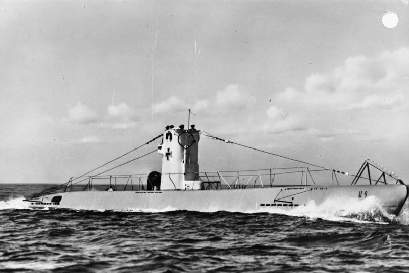 Photograph of German submarine U-9.